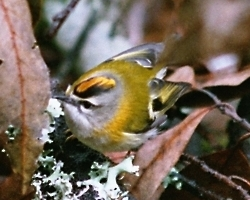 Regulus madeirensis foraging on woodland floor, photographed by "Motacilla" between Paul da Serra and 25 Fontes, Madeira on 22 February 2005